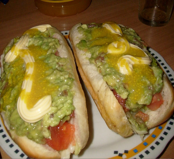 Two Home-made completos.